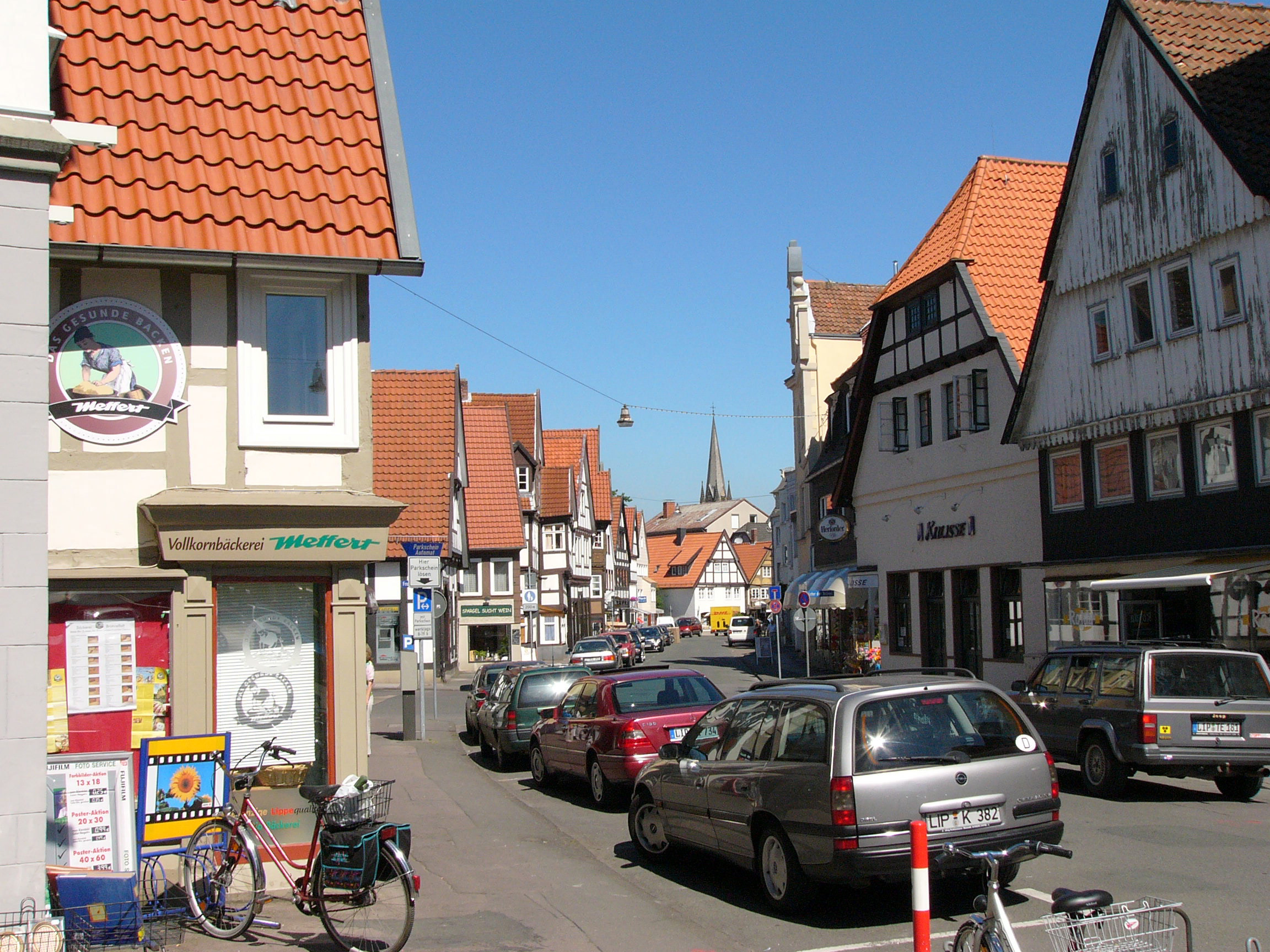 Old Town of Detmold (Krumme Straße), Germany